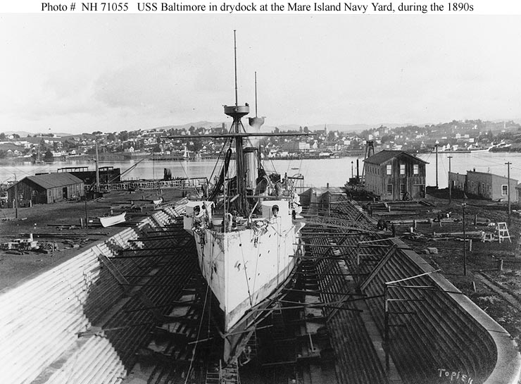 USS Baltimore (C 3) In drydock at the Mare Island Navy Yard, California, during the 1890s. Photographed by William H. Topley. Collection of William H. Topley